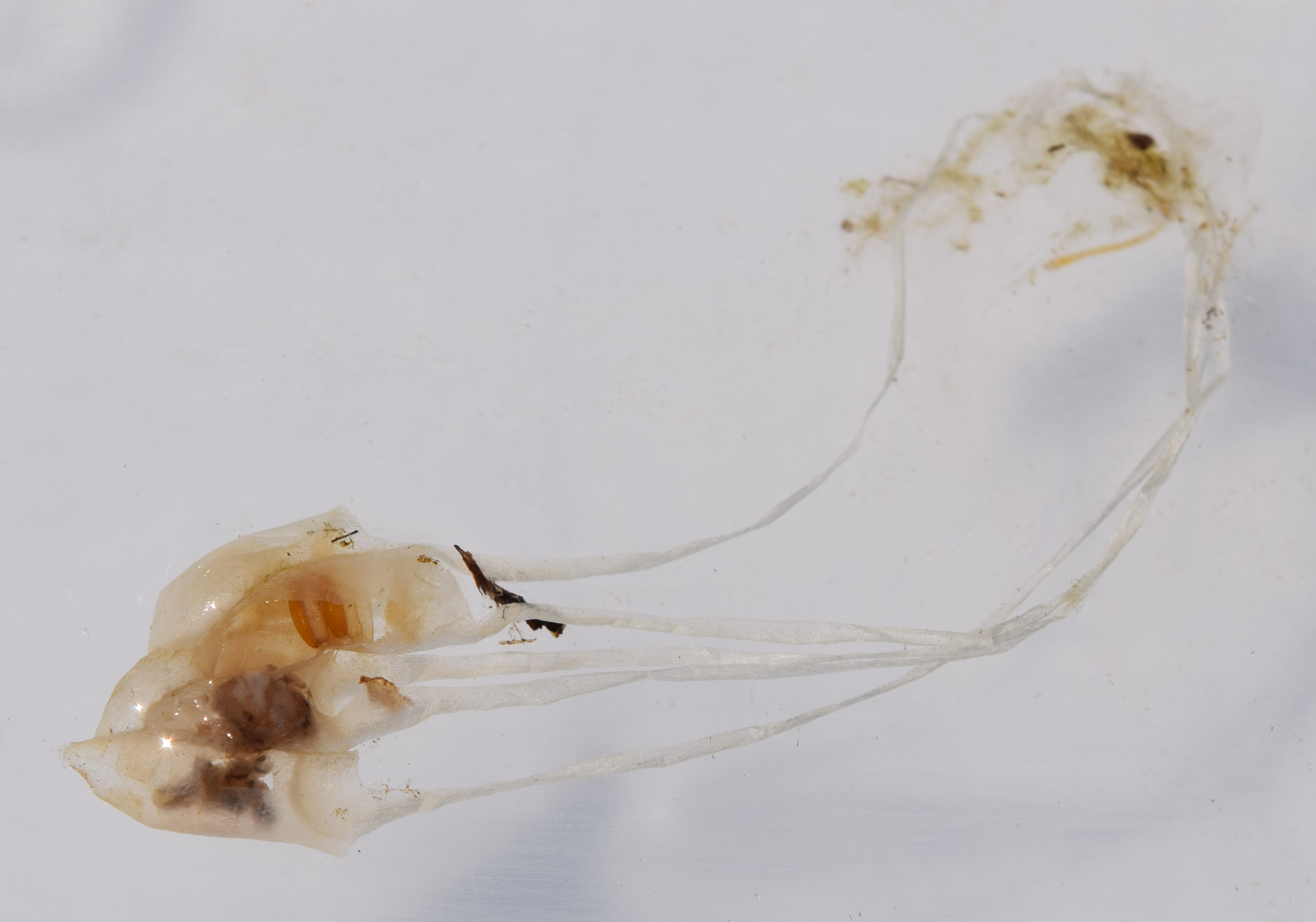 Five Tropisternus lateralis egg cases attached to each other with eggs visible within one of the cases. Taken at the University of Mississippi Field Station.